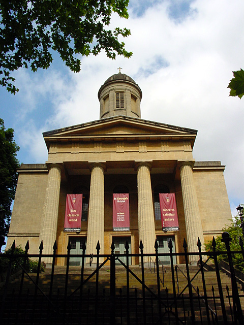 St George's Chapel, Bristol